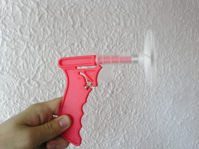 Camera: Sony Ericsson W810